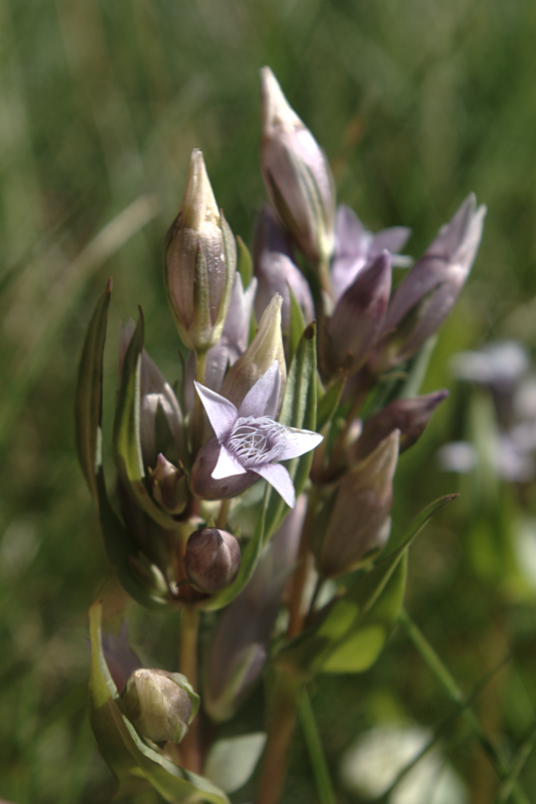 Inflorescence of Gentianella amarella var. heterosepala, Santa Fe Ski Basin, Santa Fe National Forest, New Mexico.